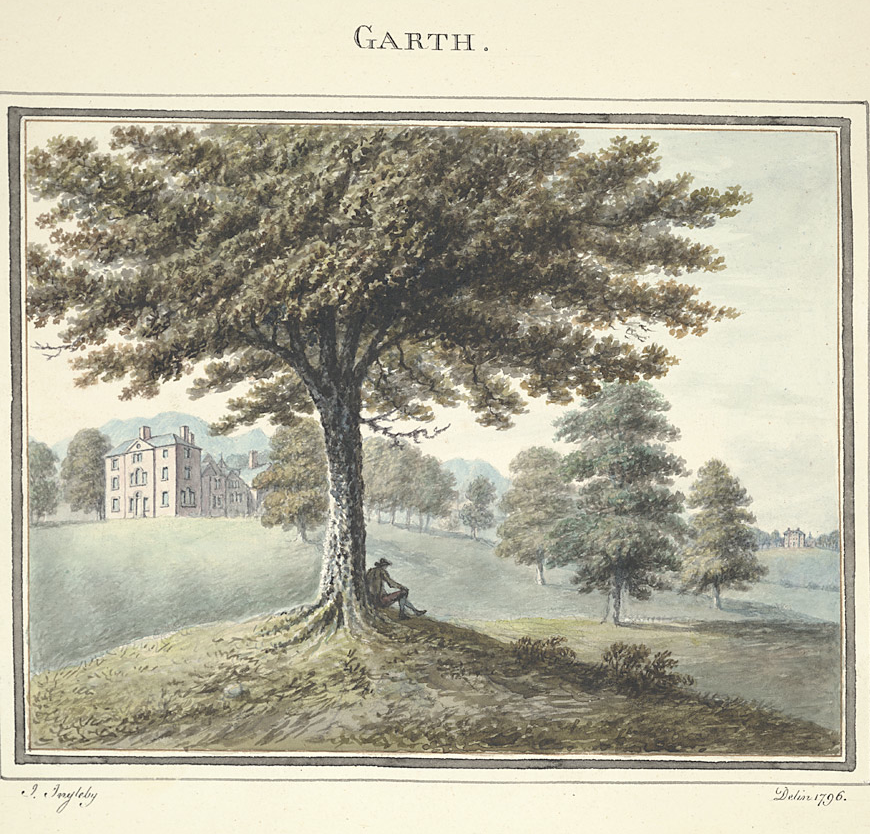 Garth, Guilsfield. Watercolour by John Ingleby, 1796 NLW PD9170